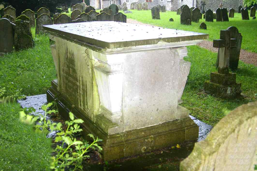 Bentworth churchyard, Hampshire, UK, Hankin family tomb